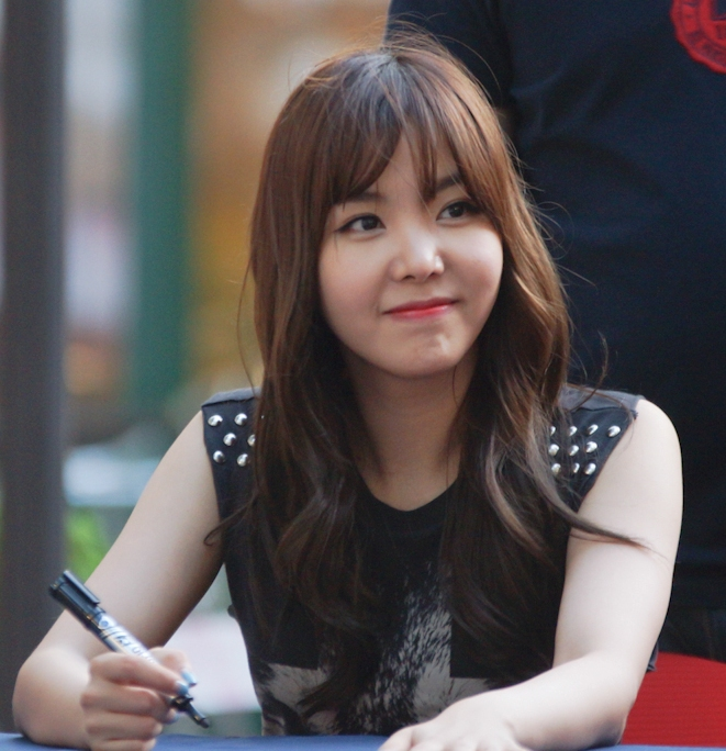 After School's Raina at a fan meeting on June 29, 2013